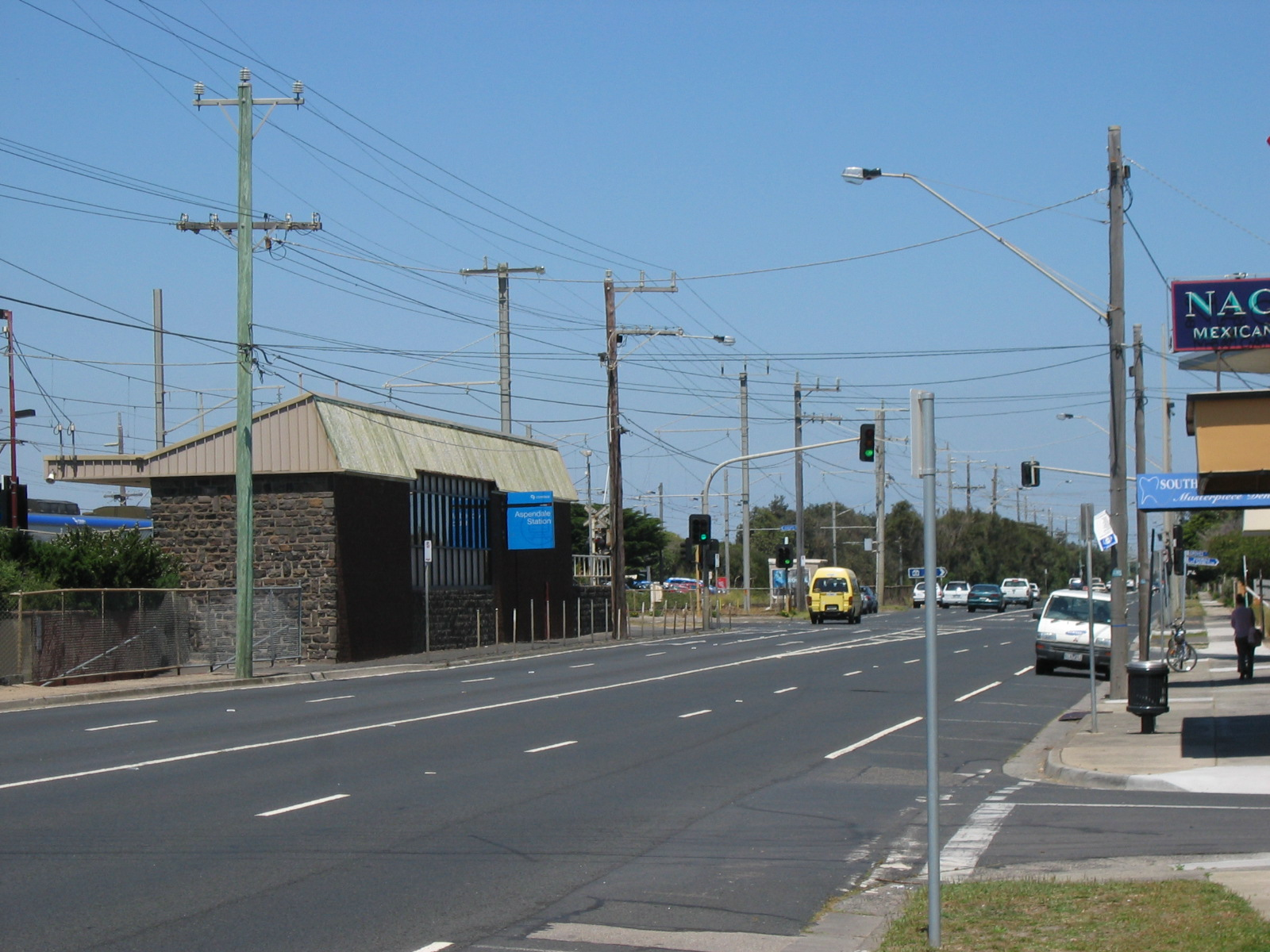 Aspendale station (Frankston line), Melbourne, Victoria.